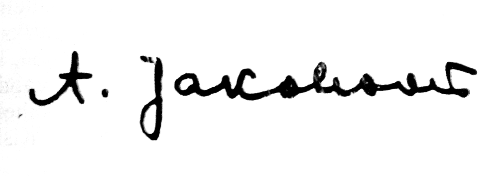 Signature of August Jakobson (1904–1963).